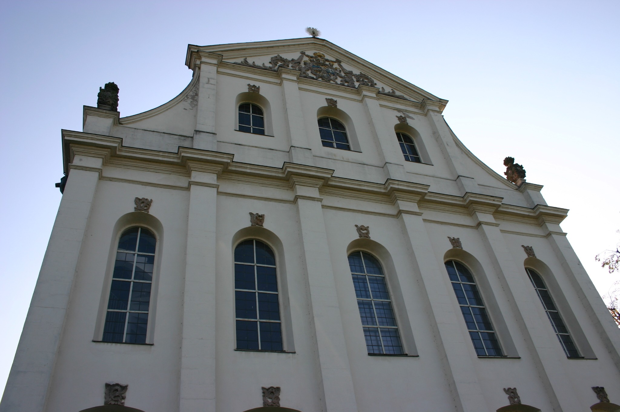 Limbach (Eltmann municipality), northern façade of Parish Church and Sanctuary of the Visitation.